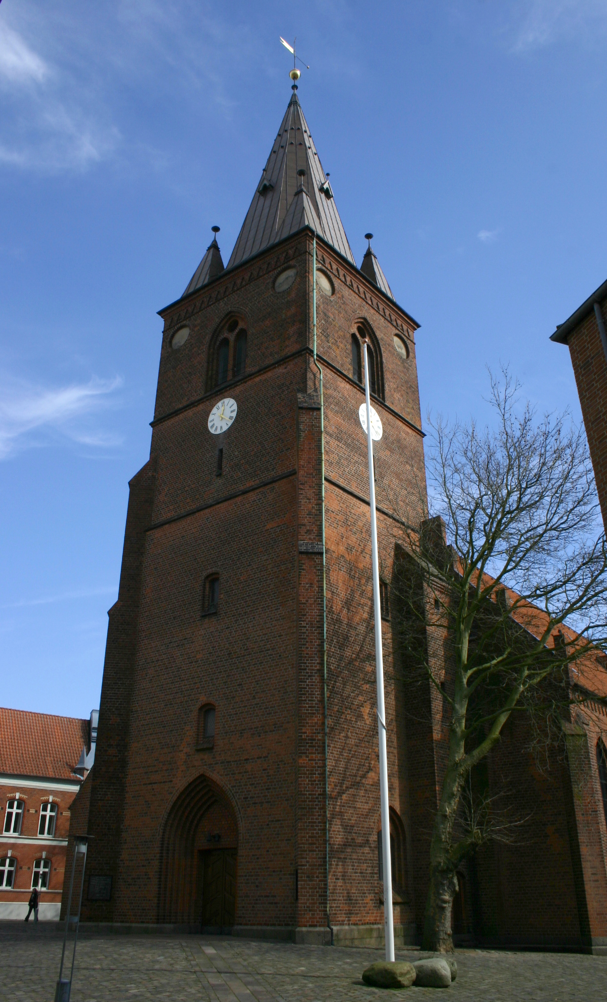 Church buildt in 13.century.Placed very central in Kolding Denmark.